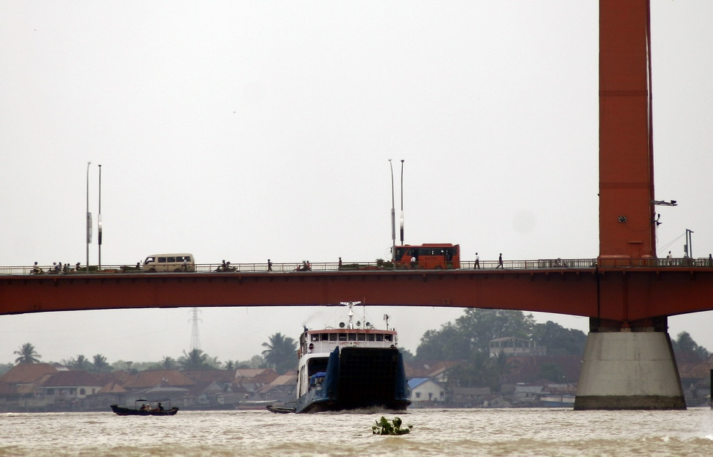 Ampera Bridge, Palembang